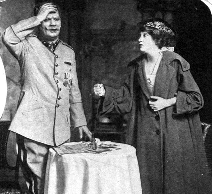 Stage actor Henry Vogel (left) as General Klaus and Fay Bainter (right) as Ruth Sherwood, from the Play "Arms and the Girl", 1916